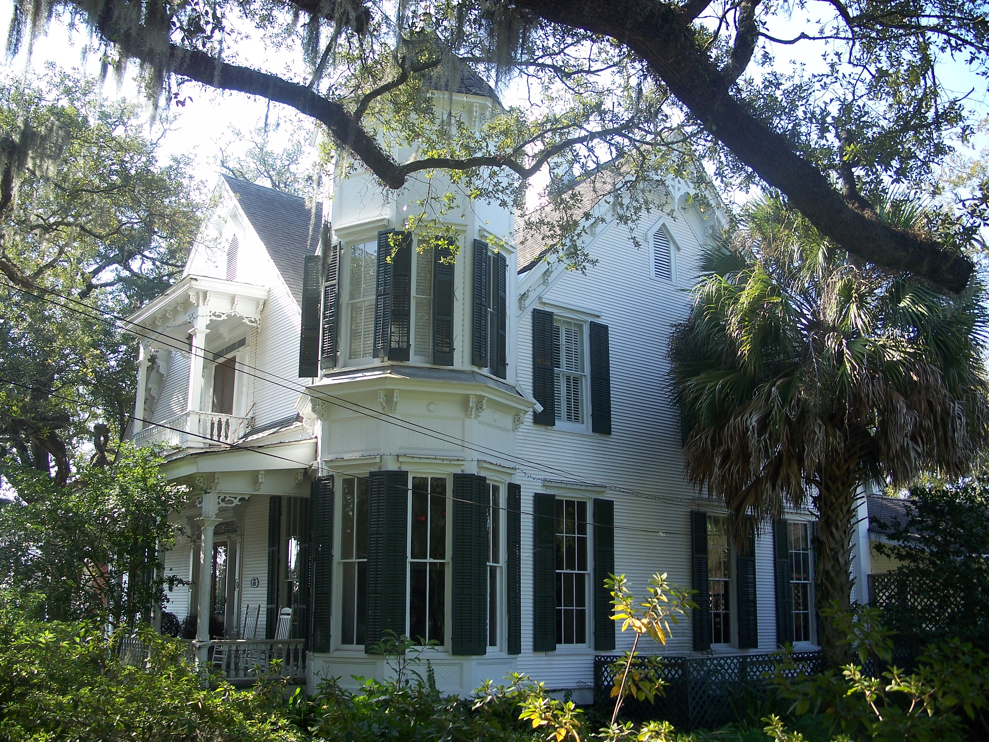 Dekle-Brunner House, in the Marianna Historic District, in Marianna, Florida. It is Building 19 on the Marianna Historic Tour.